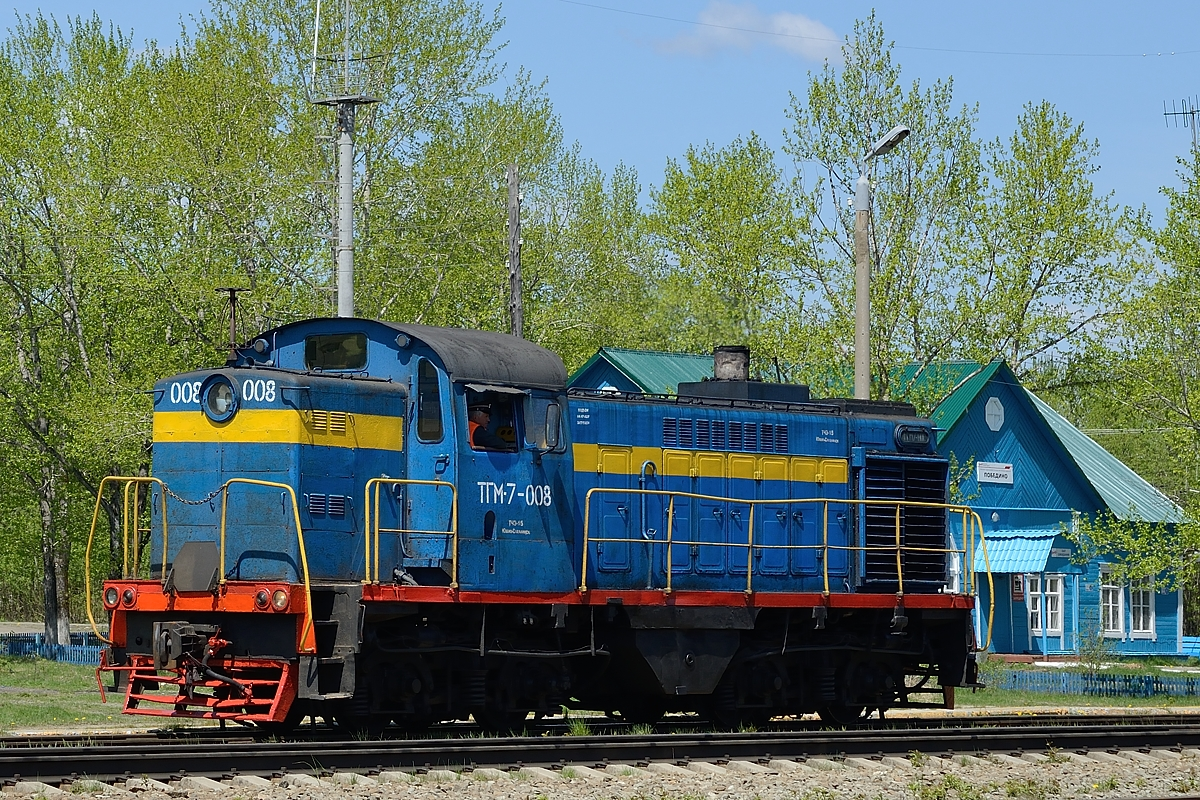 TGM7-008 in Pobedino